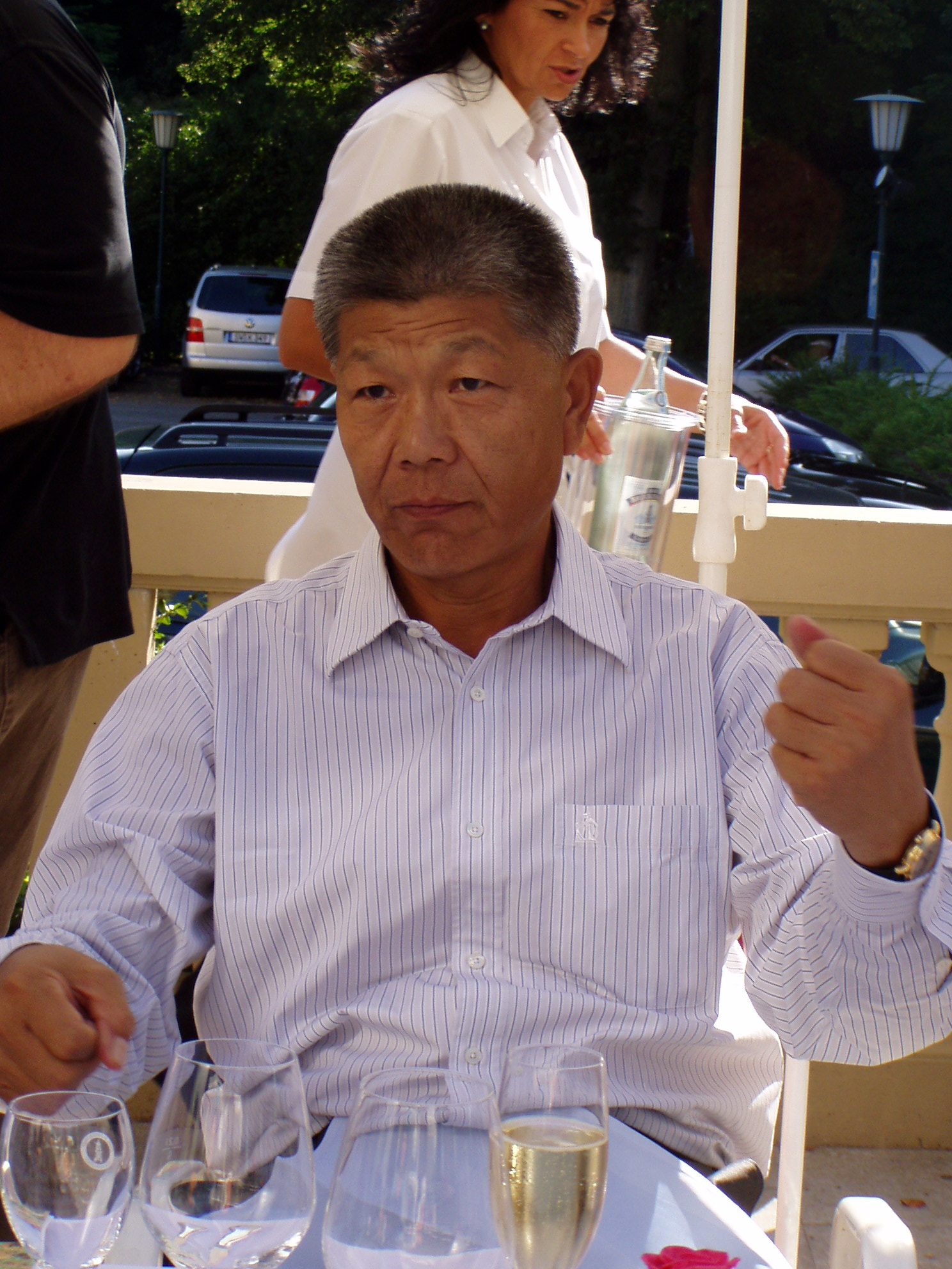 He Ping 贺平, Major General and Vice Chairman of the China Poly Group; husband of Xiao Rong, youngest daughter of Deng Xaoping (1904-1997)